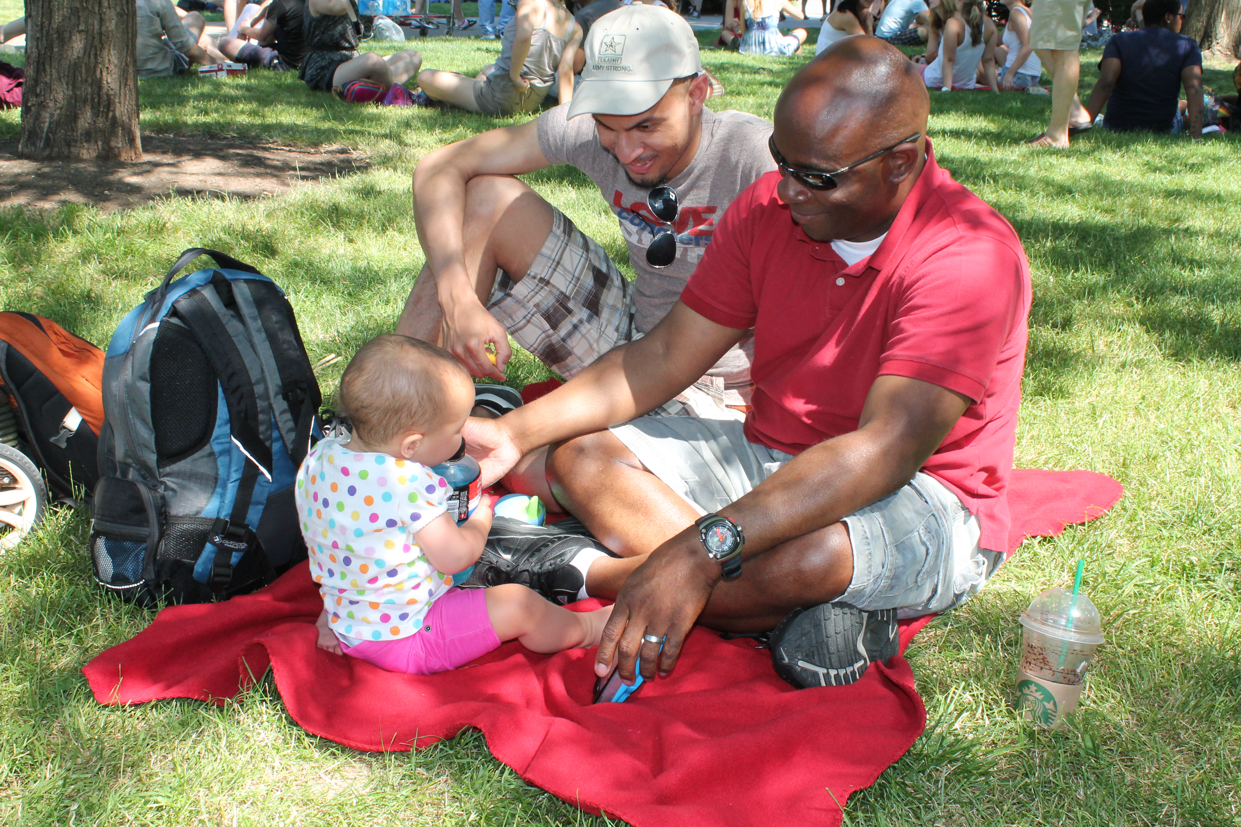 Gay couple with a baby